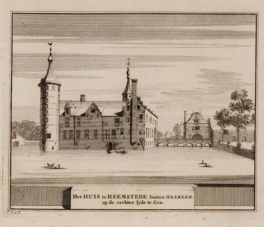 Castle named "Slot Heemstede" in North Holland